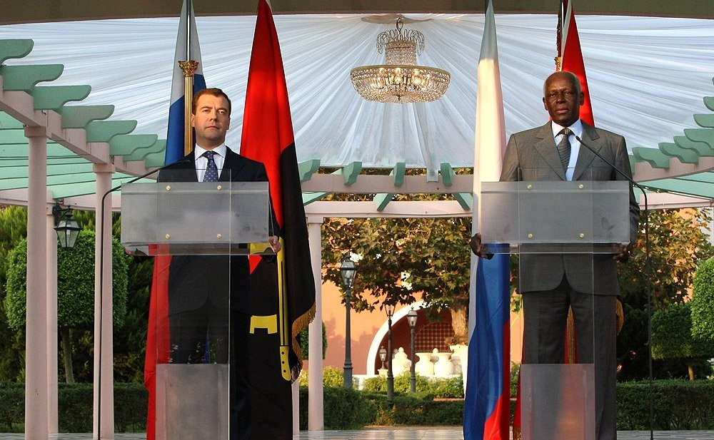 LUANDA. News conference following Russian-Angolan talks. With President of Angola Jose Eduardo dos Santos.